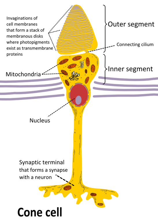 Cone cell.